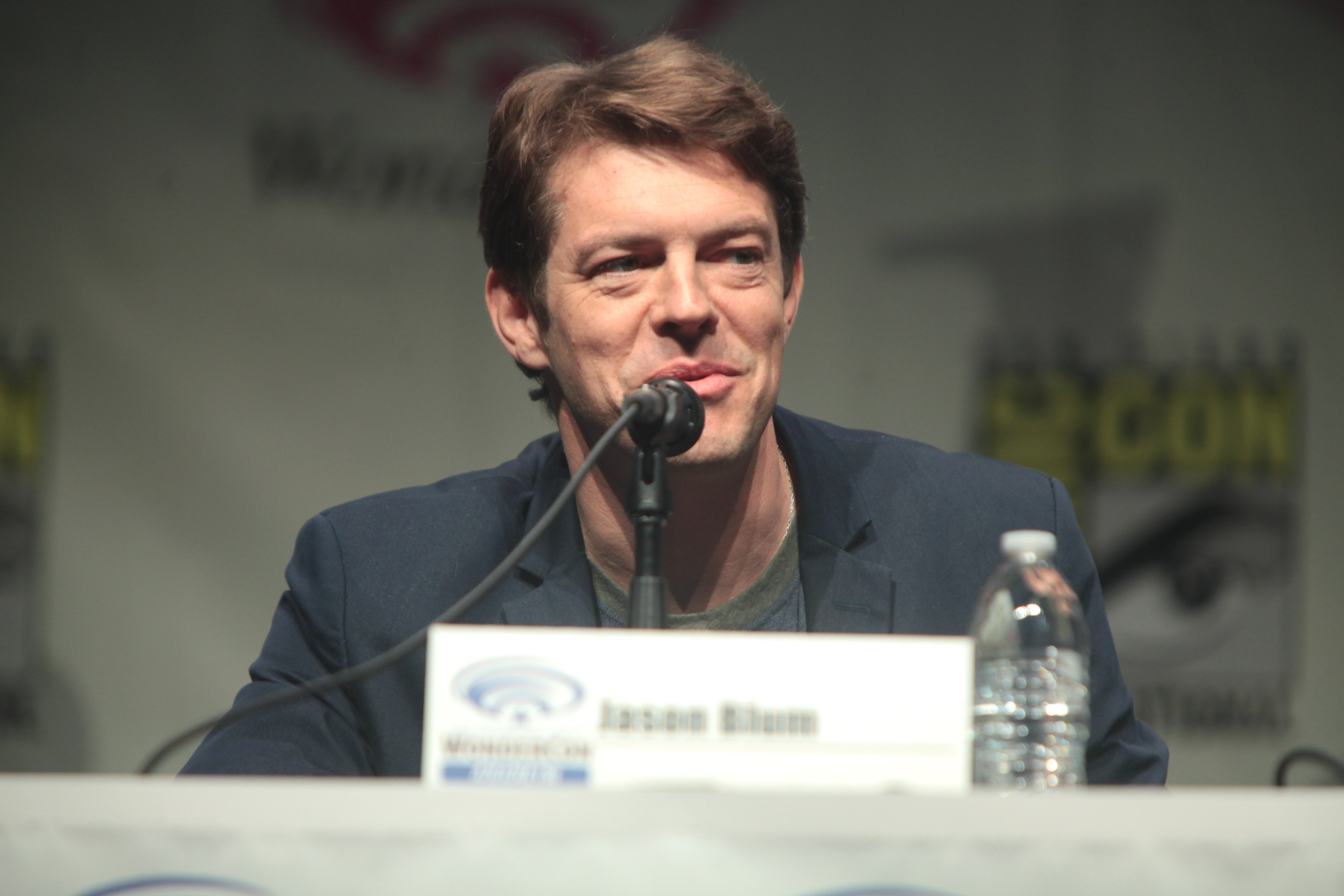 Jason Blum speaking at the 2015 Wondercon, for "The Gallows", at the Anaheim Convention Center in Anaheim, California.